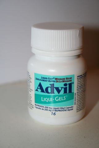 Advil Liqui-Gels - 200 mg Ibuprofen Liquid Capsules